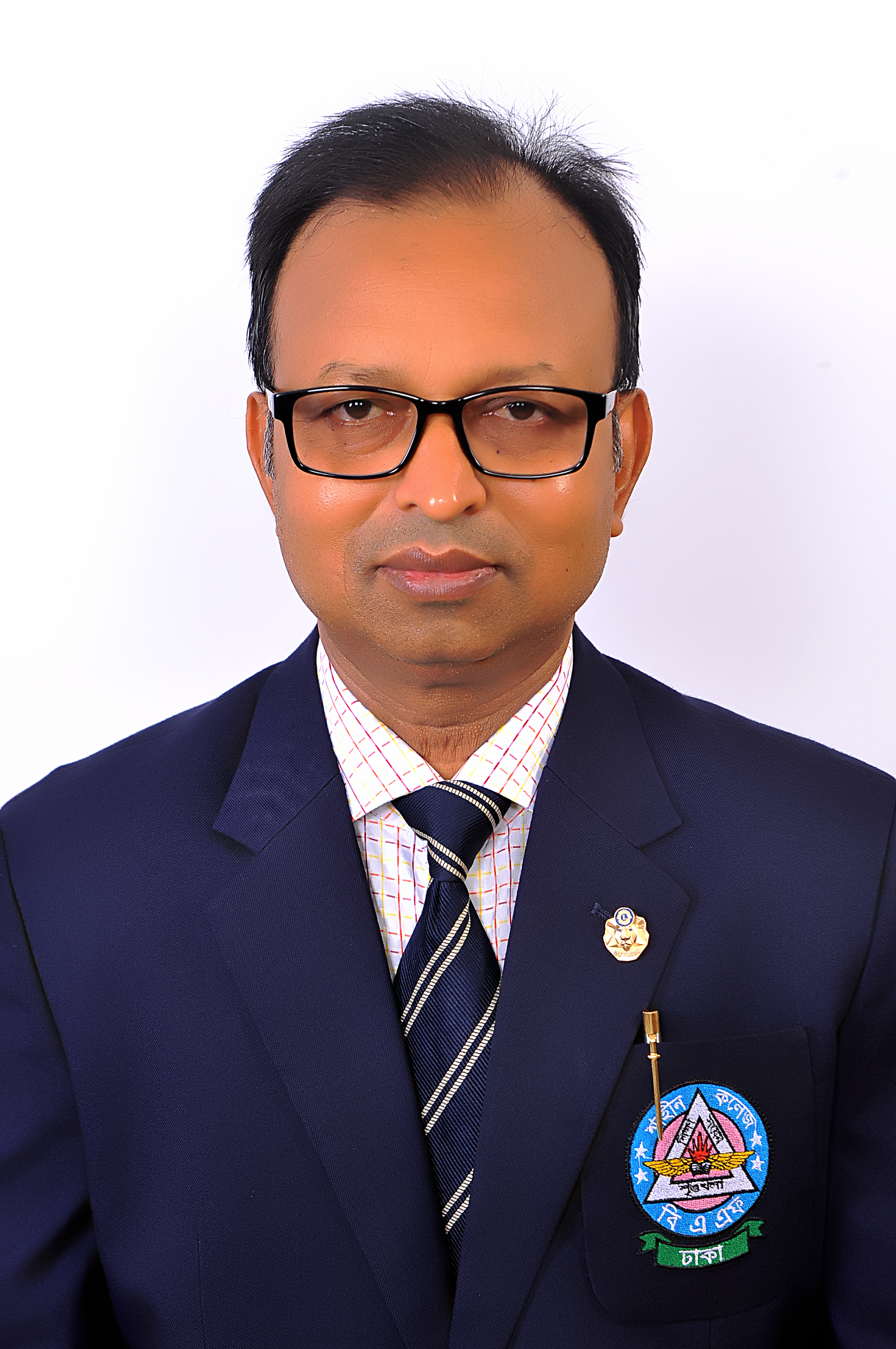 Sukumer Chandra Saha, Asst Professor, Dept of Management, BAF Shaheen College Dhaka